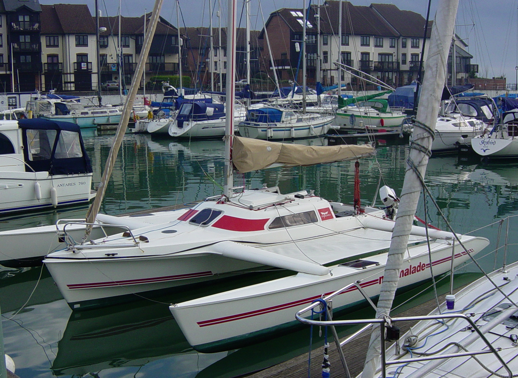 Dragonfly Trimaran